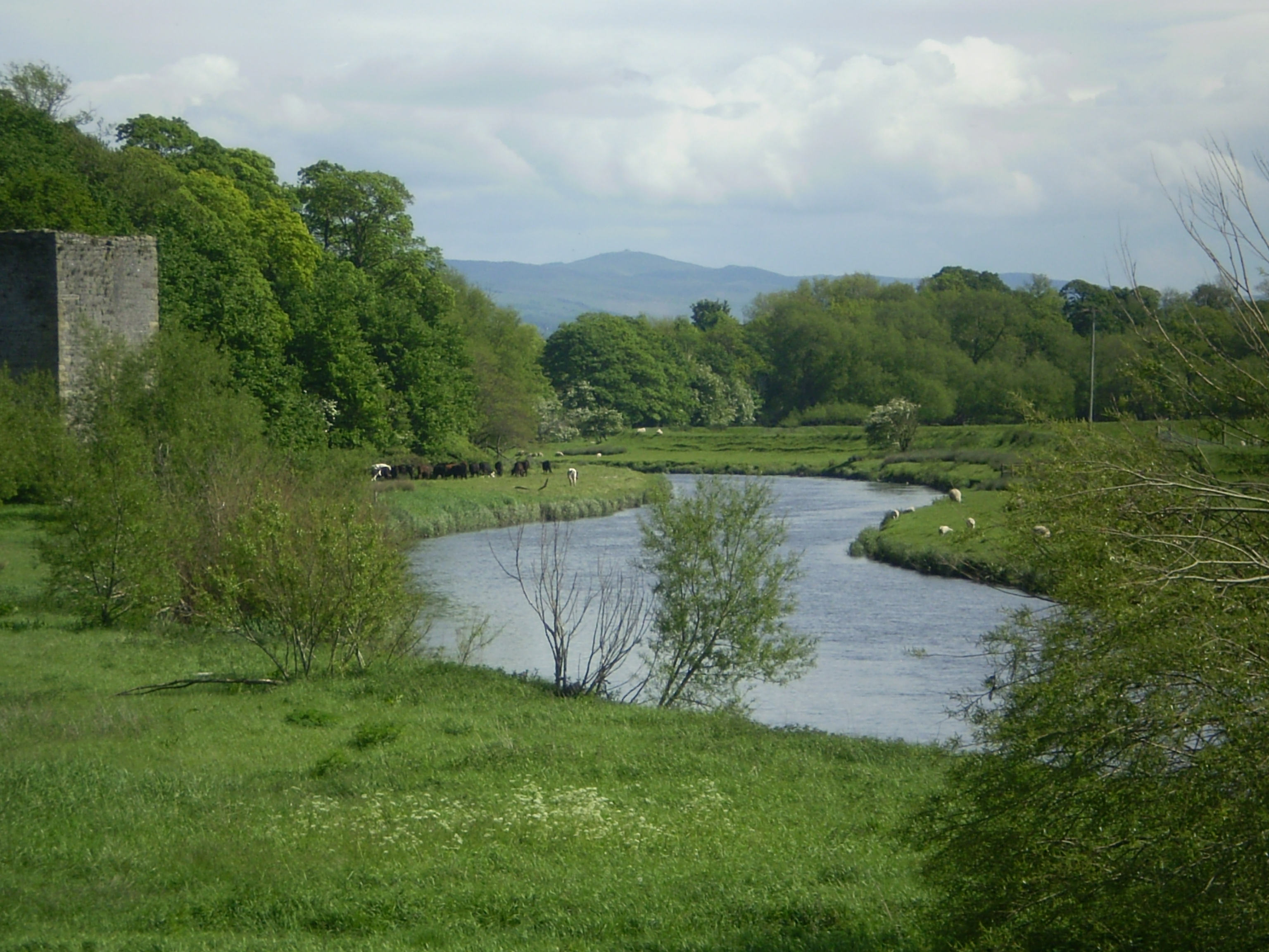 river clwyd flowing past rhuddlan